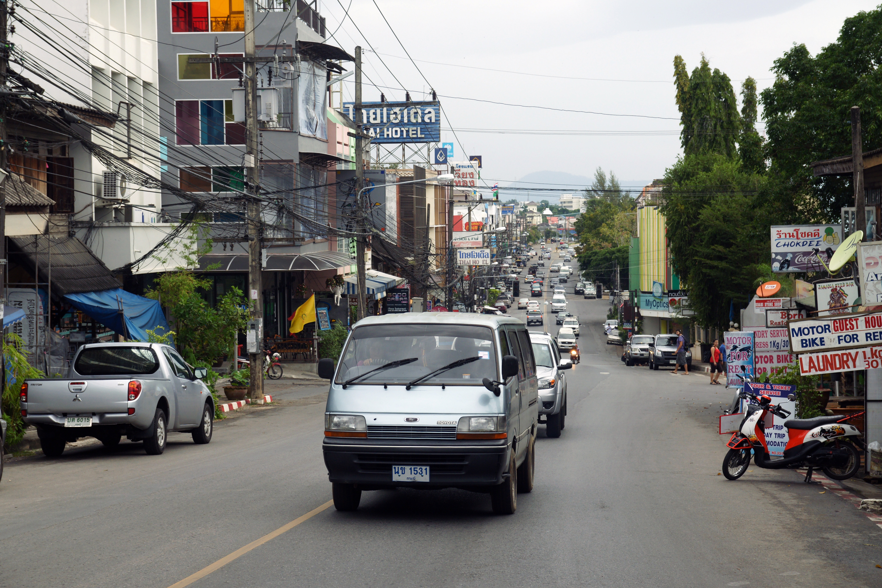 Street view from Krabi Town, Krabi, Thailand.